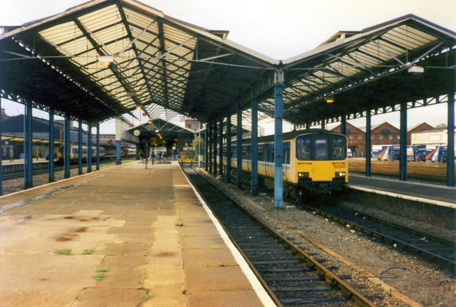 Chester station The twin bay platforms at the south end of the station have a canopy isolated from the rest of the station as the result of a major accident in which an oil train lost control and collided with an empty passenger train. The resulting fire melted the original metalwork.